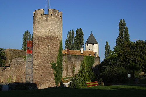 Castle of La Tour-de-Peilz, Switzerland